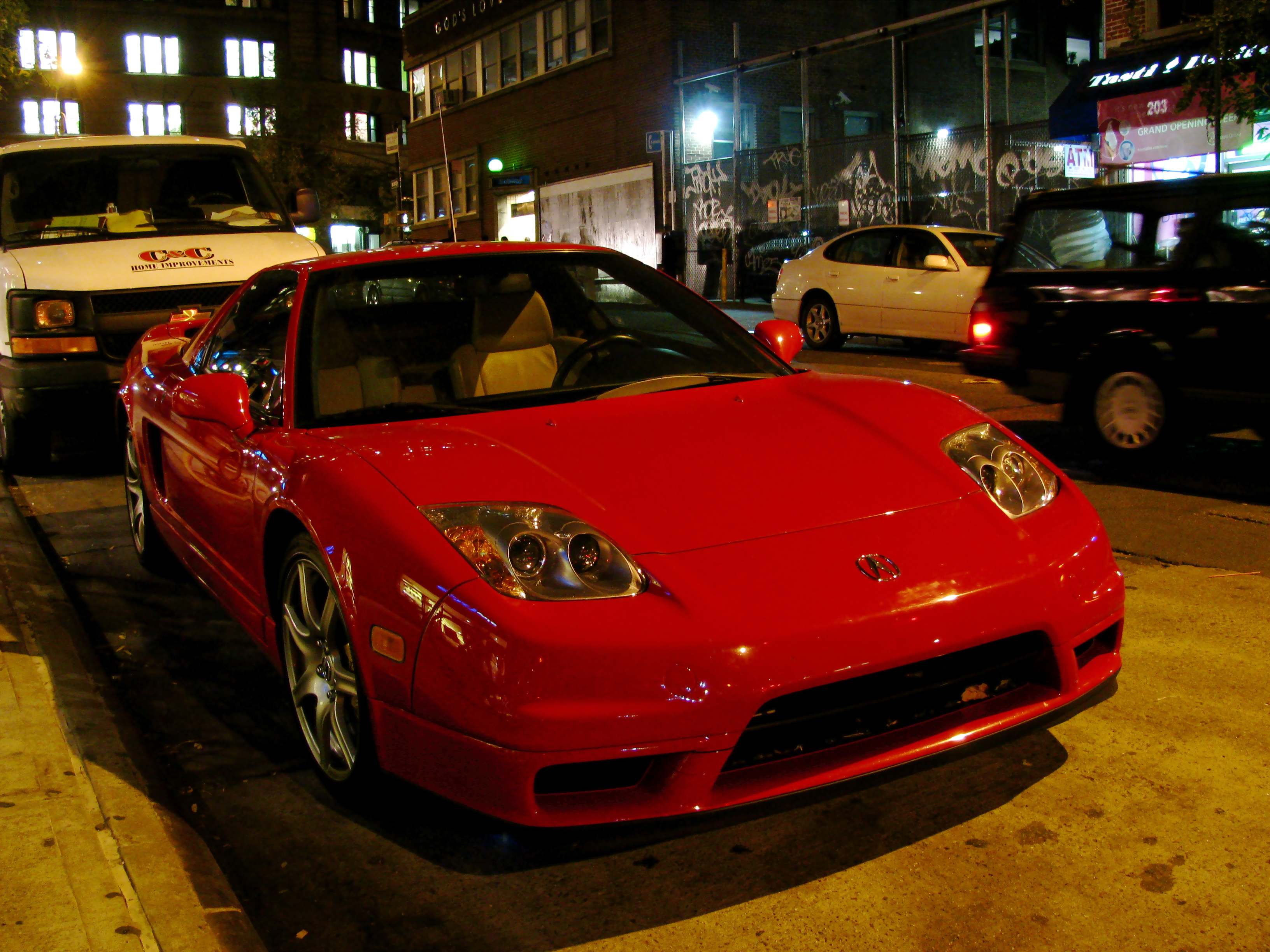 Handsome-ish.